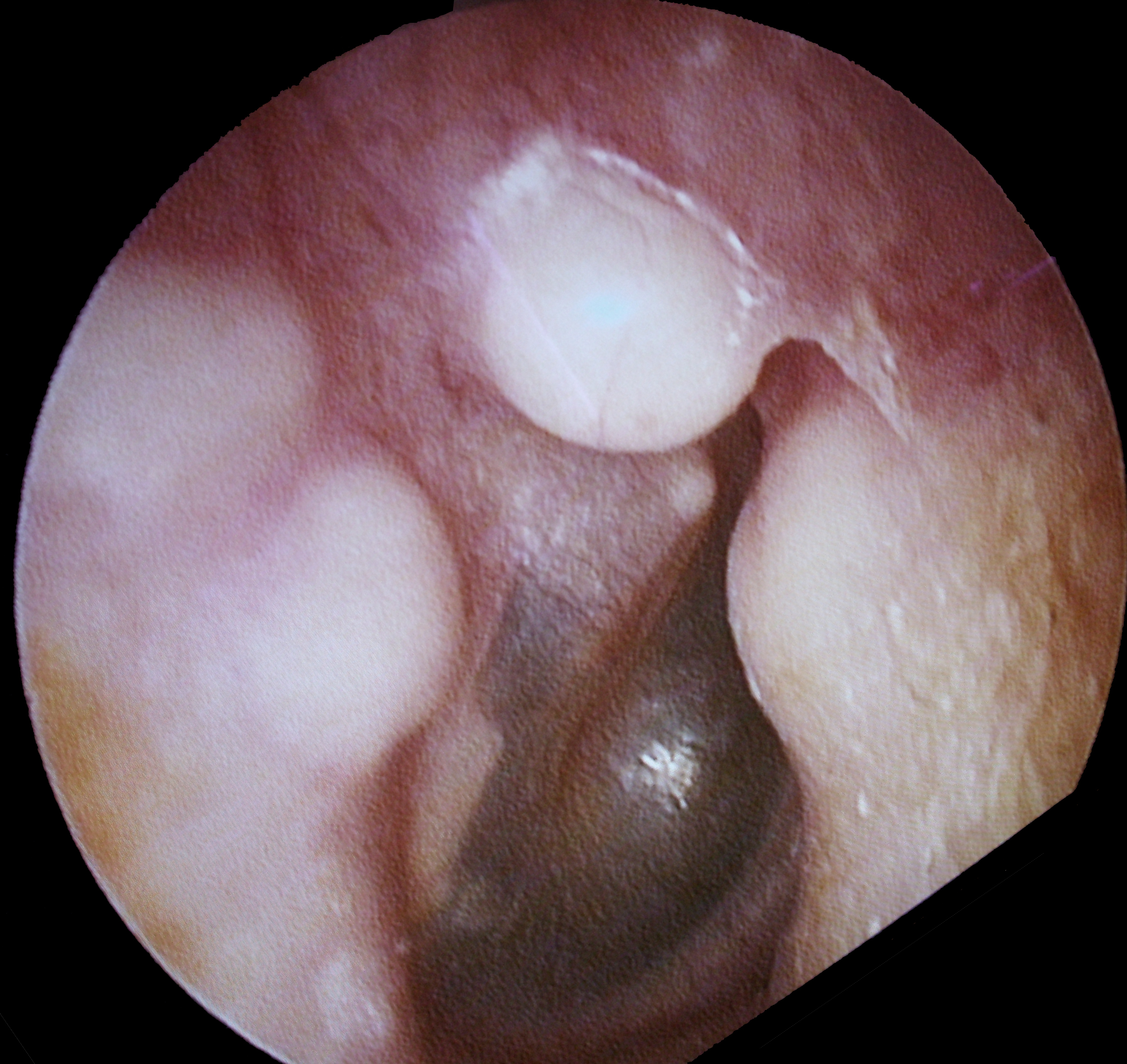 Osteomas of the external ear canal